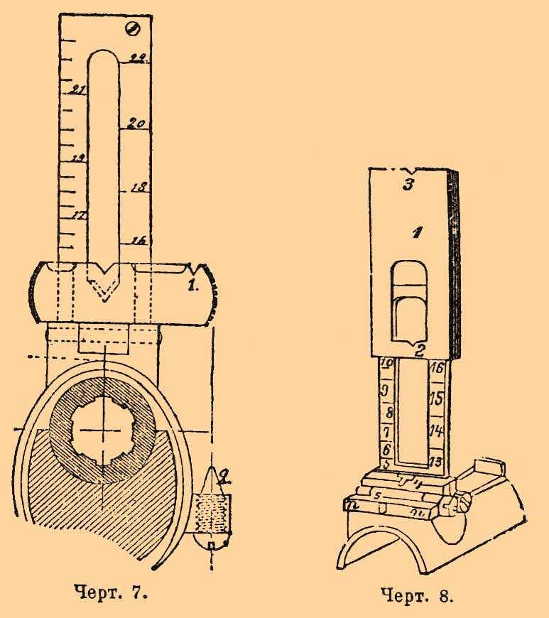 Illustration from Brockhaus and Efron Encyclopedic Dictionary (1890—1907)